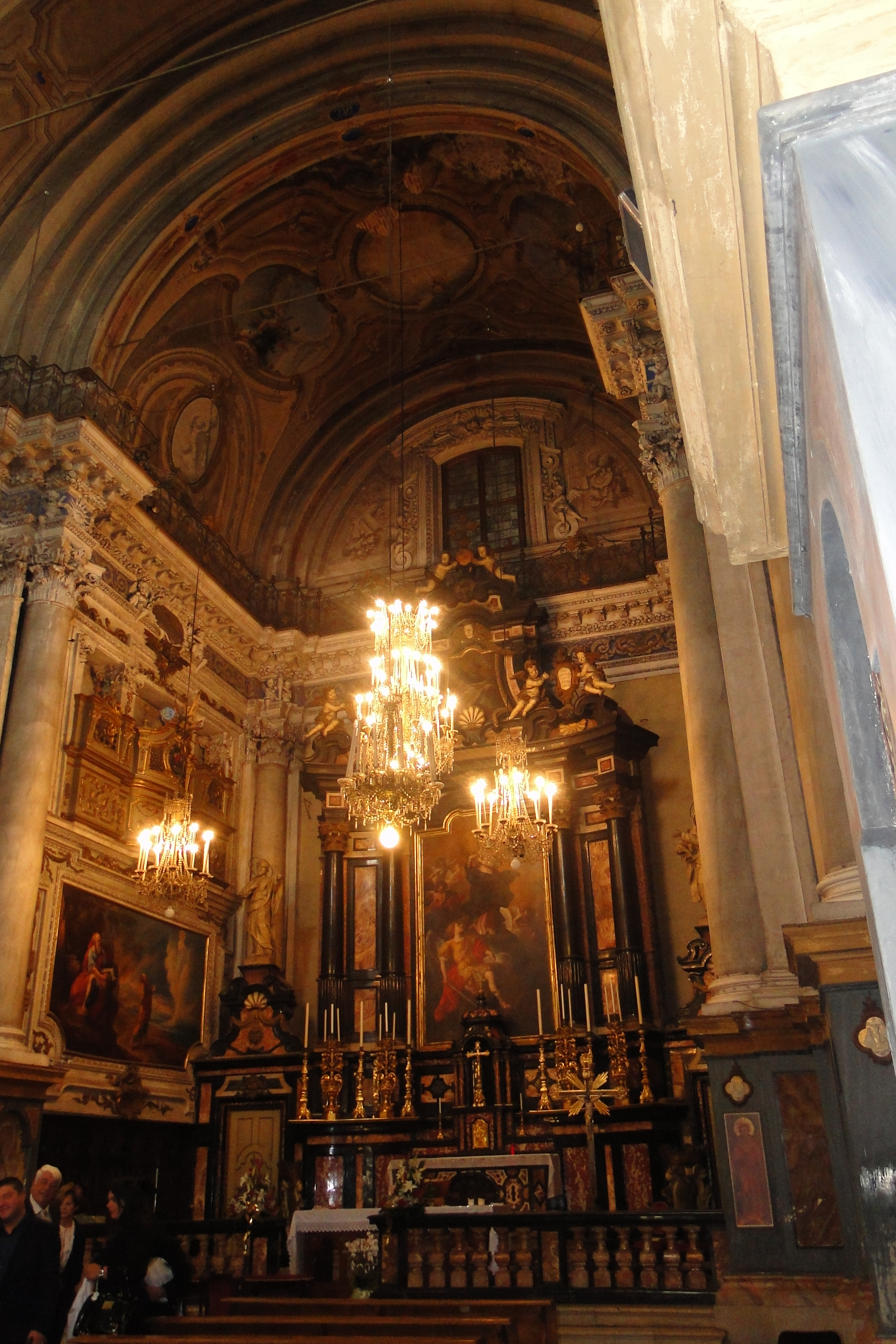 Church of San Filippo Neri in Chieri (Turin - Italy) - Main altar